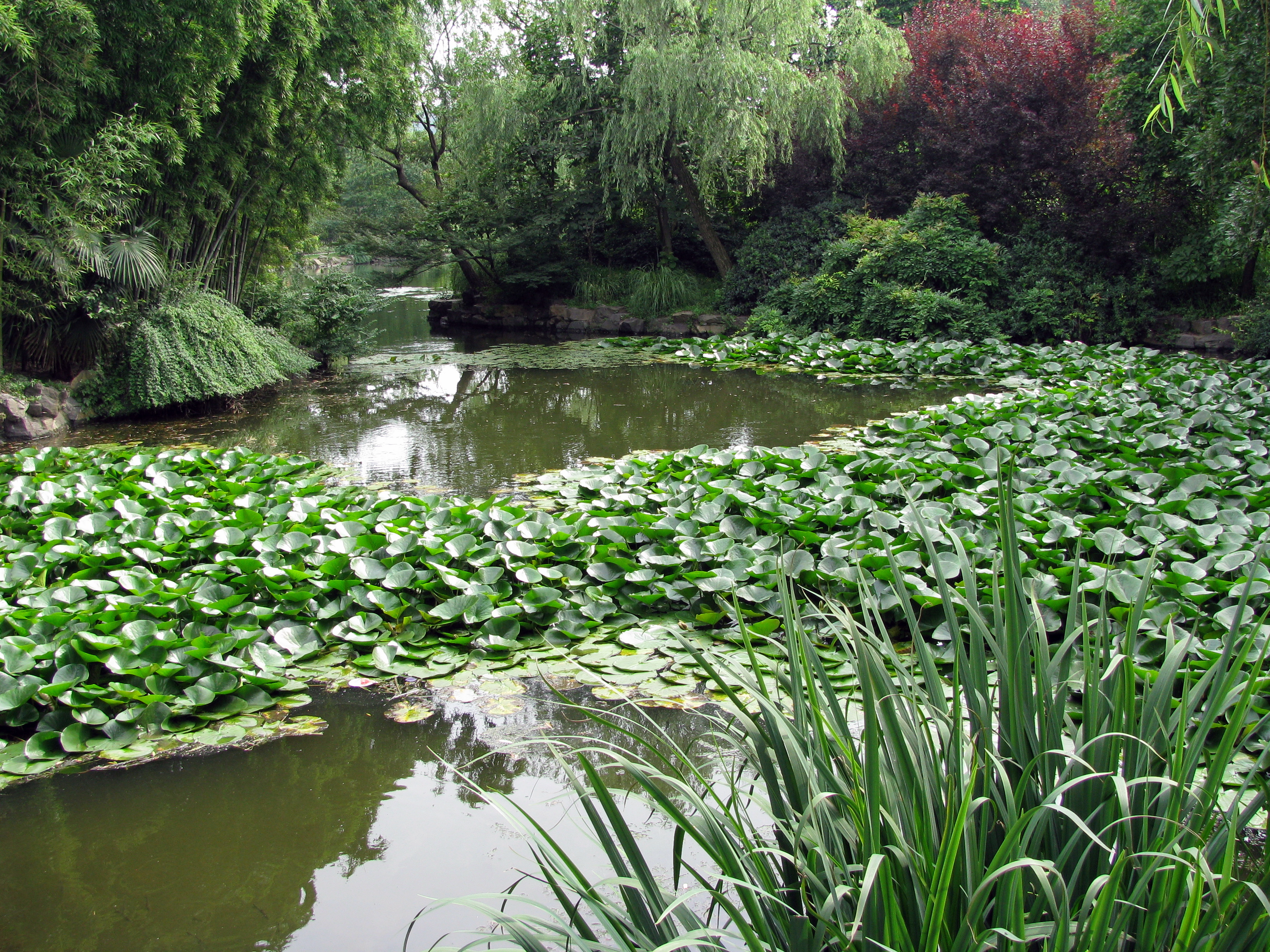 West Lake in Hangzhou, China.